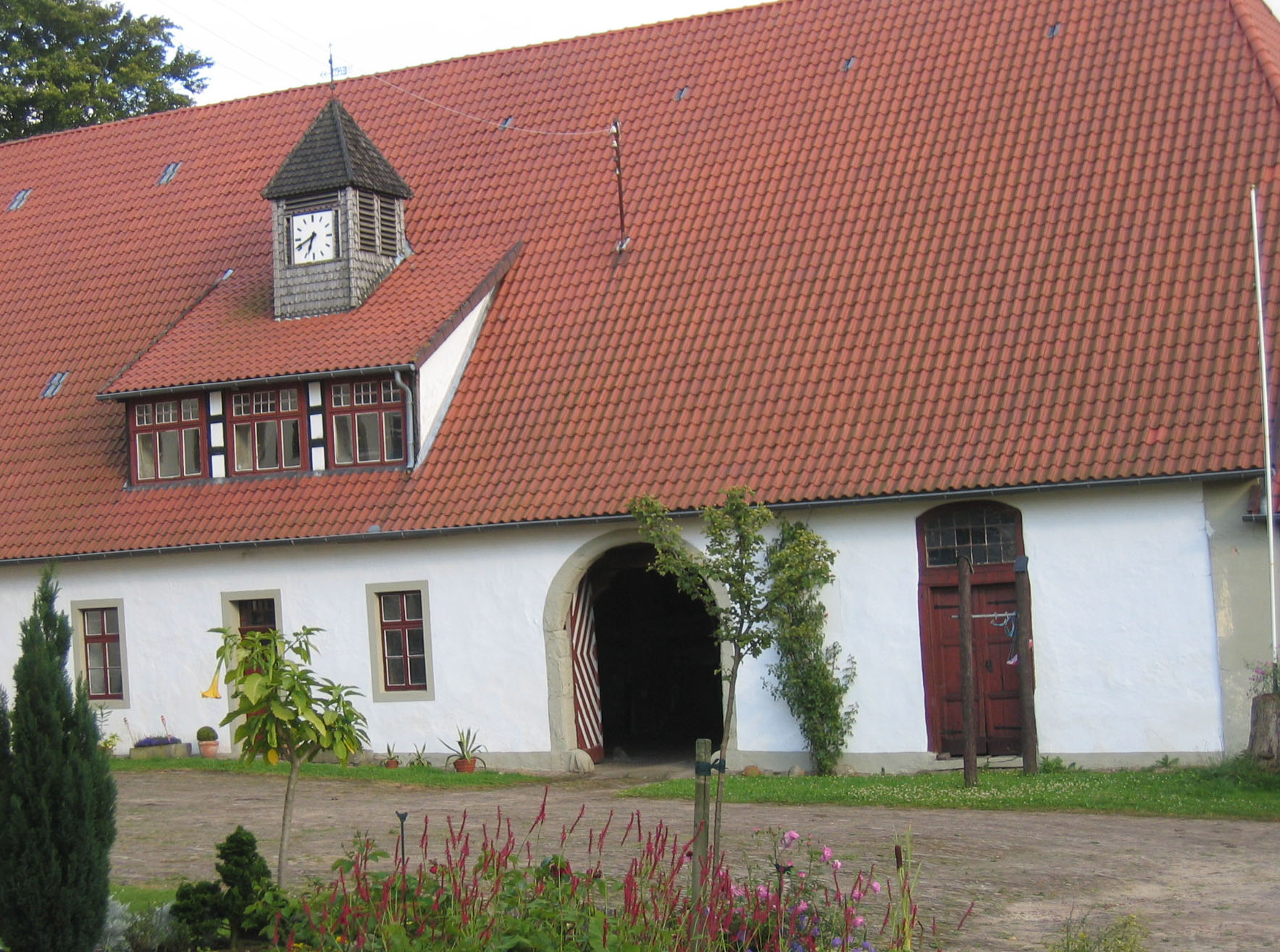 Building belonging to Haus Kilver, a former knights' fortress, in the town of Rödinghausen-Westkilver, Germany.